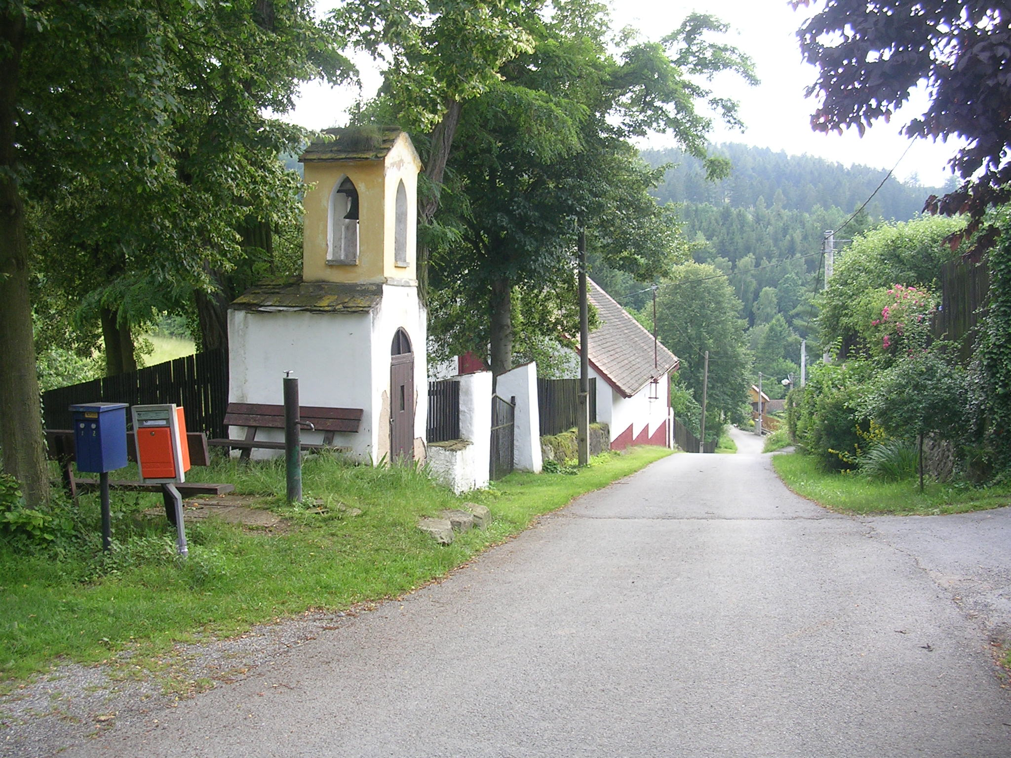 Sedlčany-Štileček, Příbram District, Central Bohemian Region, the Czech Republic.